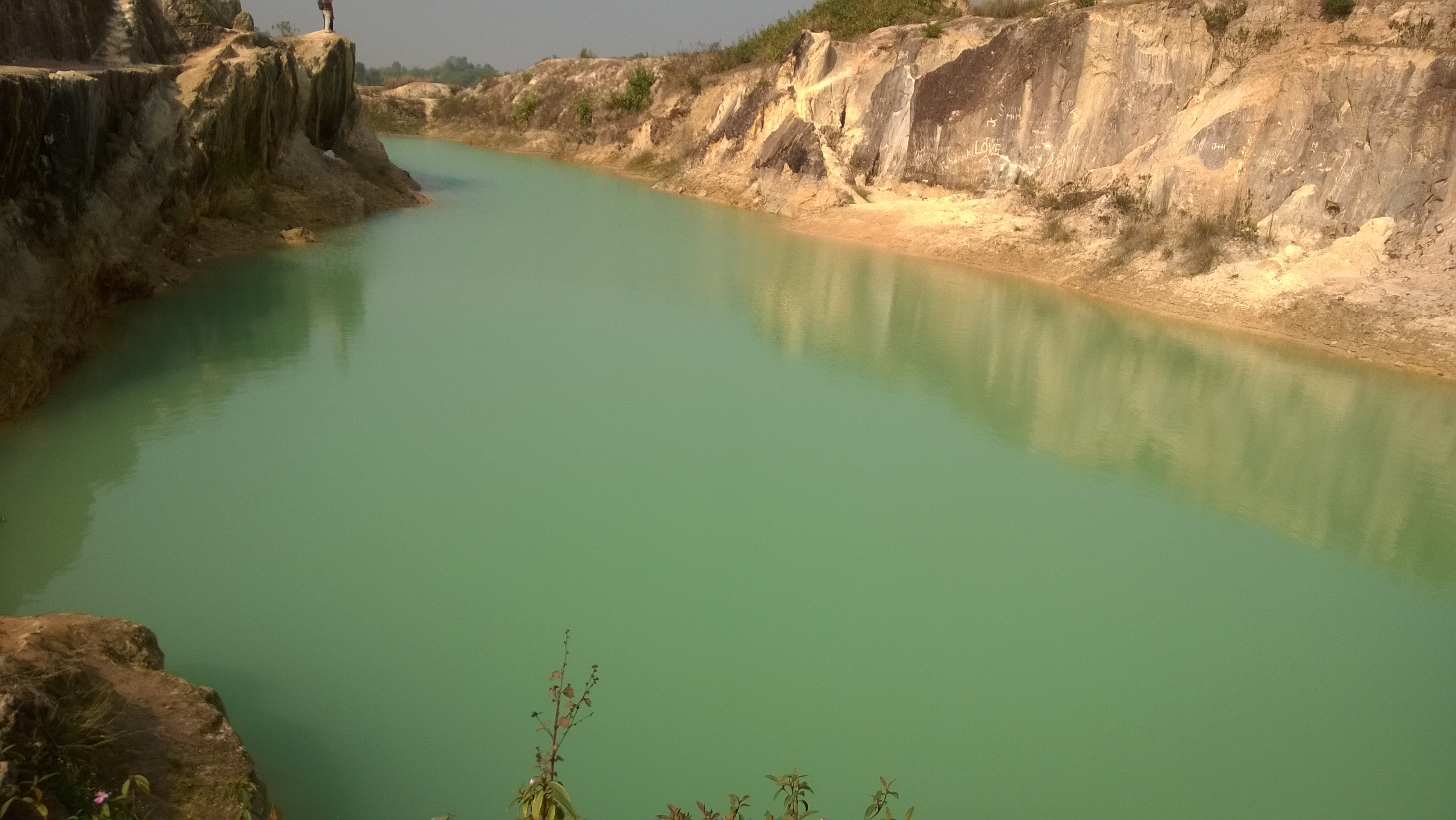 সুসং দুর্গাপুরের চিনামাটির পাহাড়। এটি নেত্রকোণা জেলার অবস্থিত।